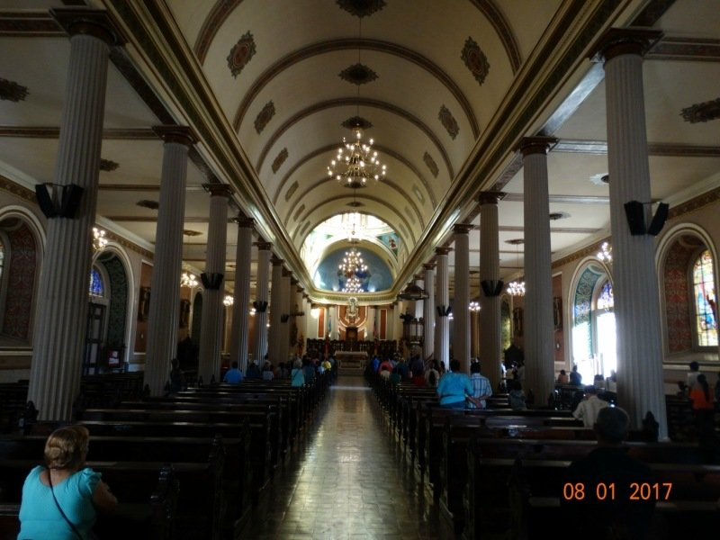 Interior of San Jose Cathedral